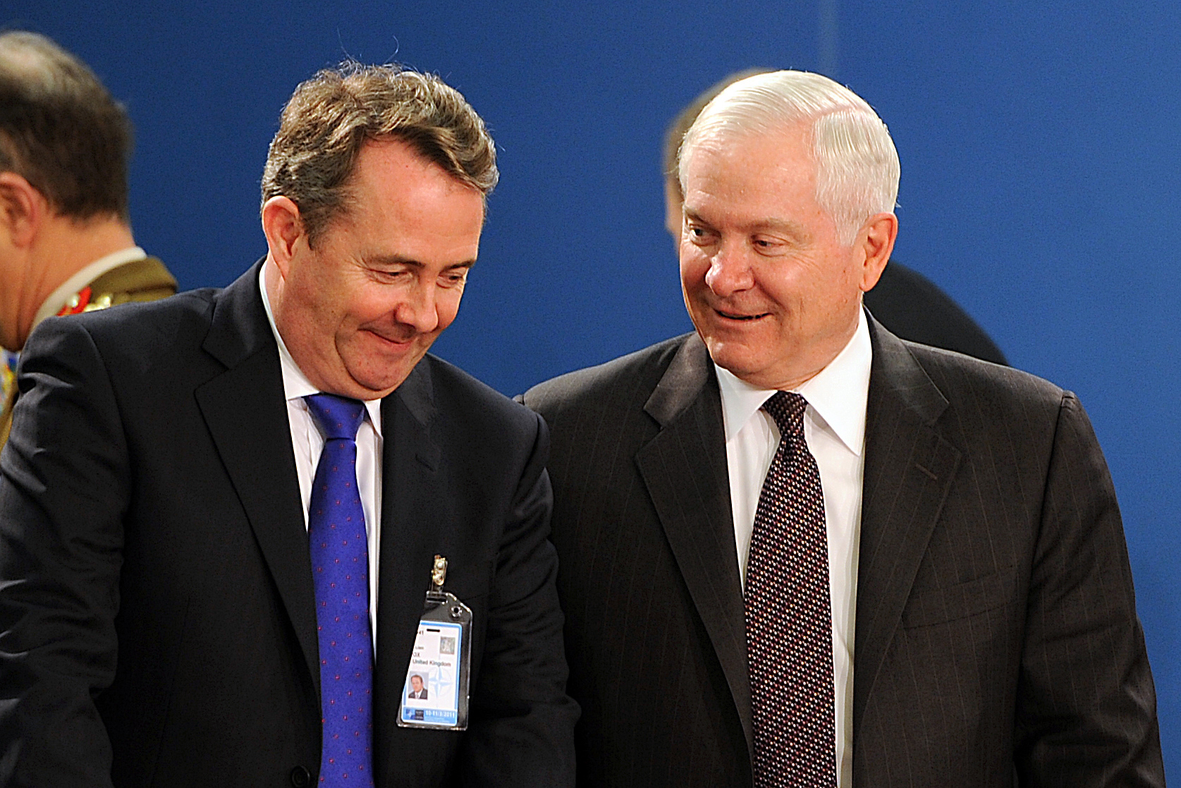 Secretary of Defense Robert M. Gates speaks with British Defense Minister Liam Fox in NATO headquarters in Brussels, Belgium, on March 10, 2011. Gates is in Belgium to attend NATO Defense Ministers' meetings.